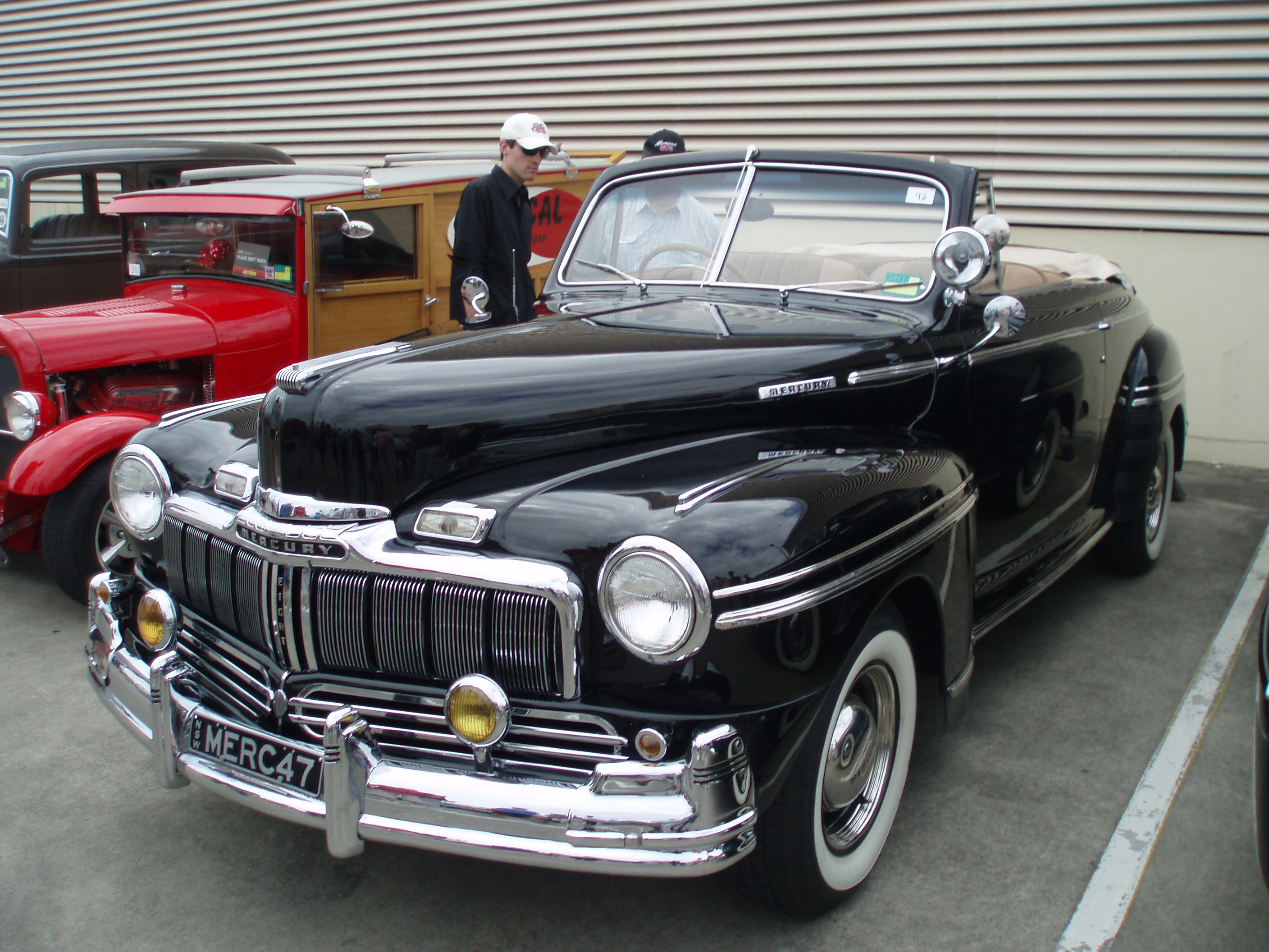 1947 Mercury Eight convertible. Taken at the 2011 New South Wales All American Day, held at Castle Towers Shopping Centre, Castle Hill, Sydney.